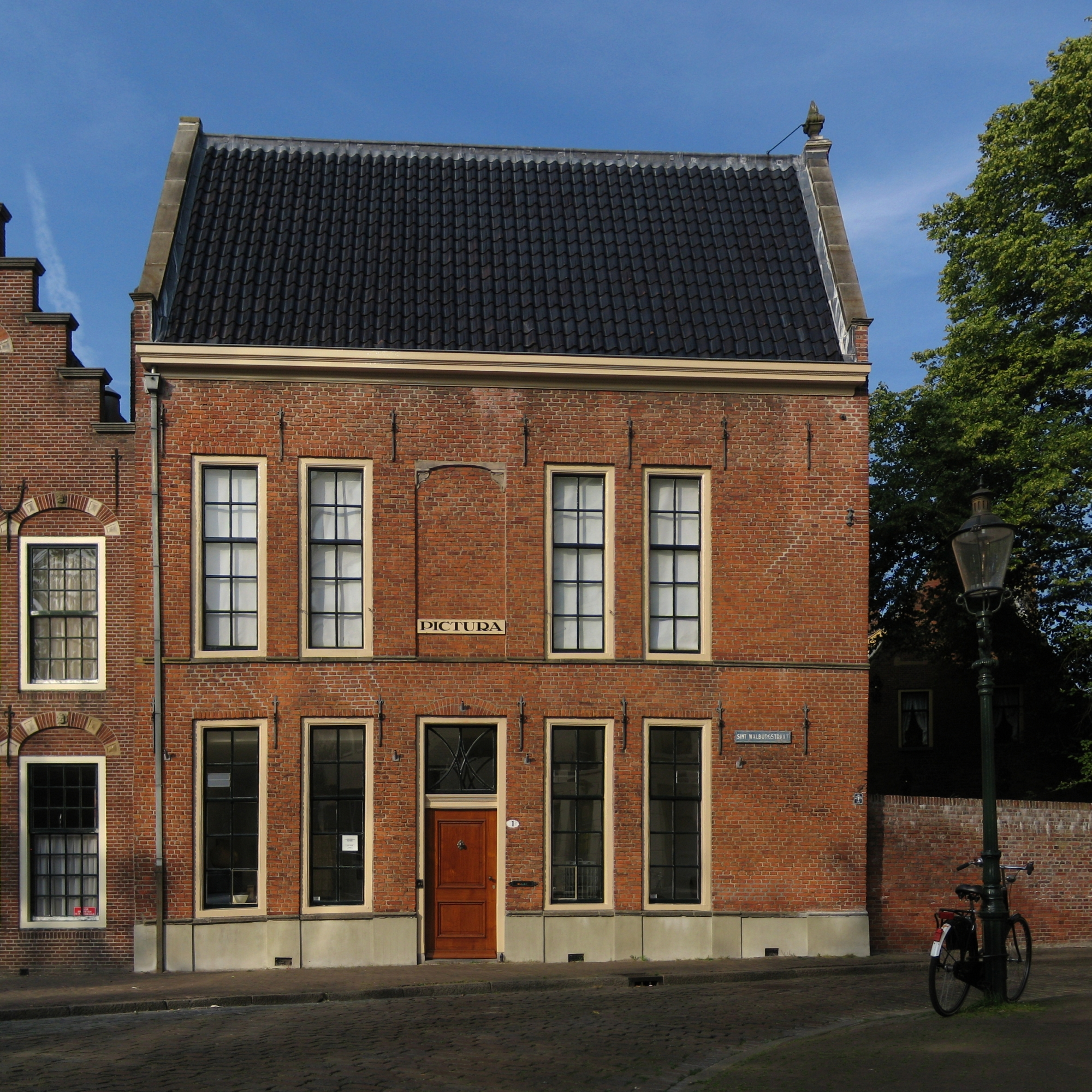 Art gallery Pictura in the Dutch city of Groningen. The building originally dates from the fourteenth century.